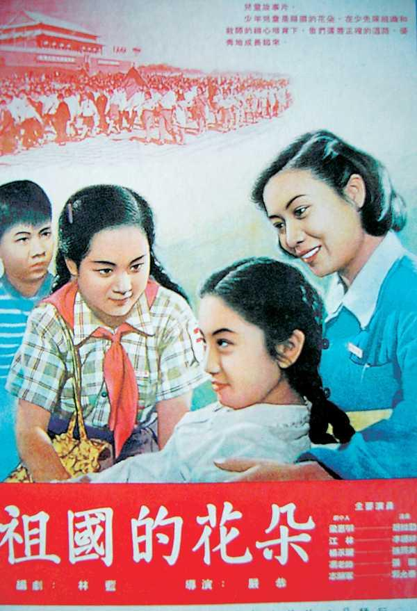 Poster of flim "Flowers of motherland" in 1955 China